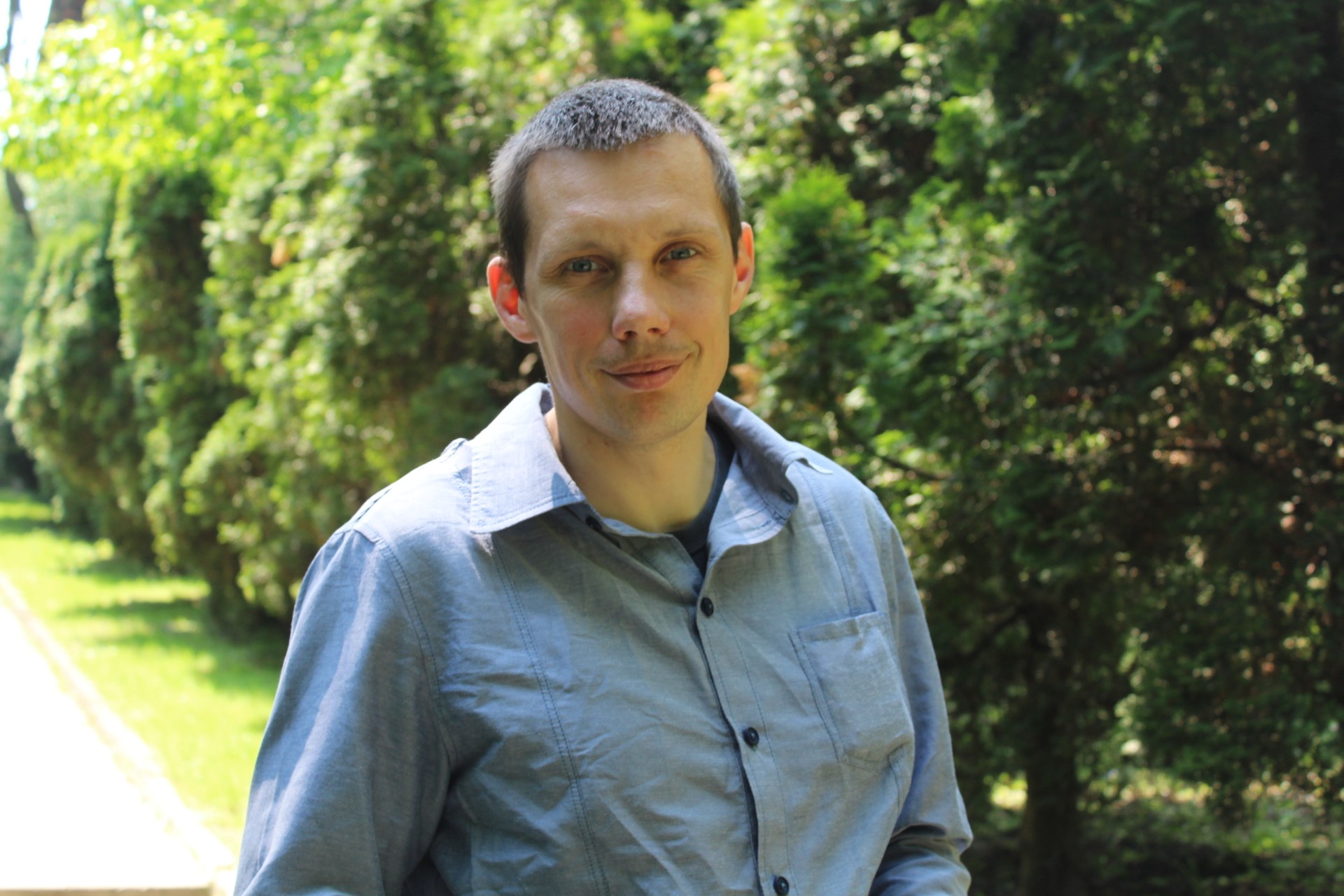 Vlad Yakushev, ukrainian writer